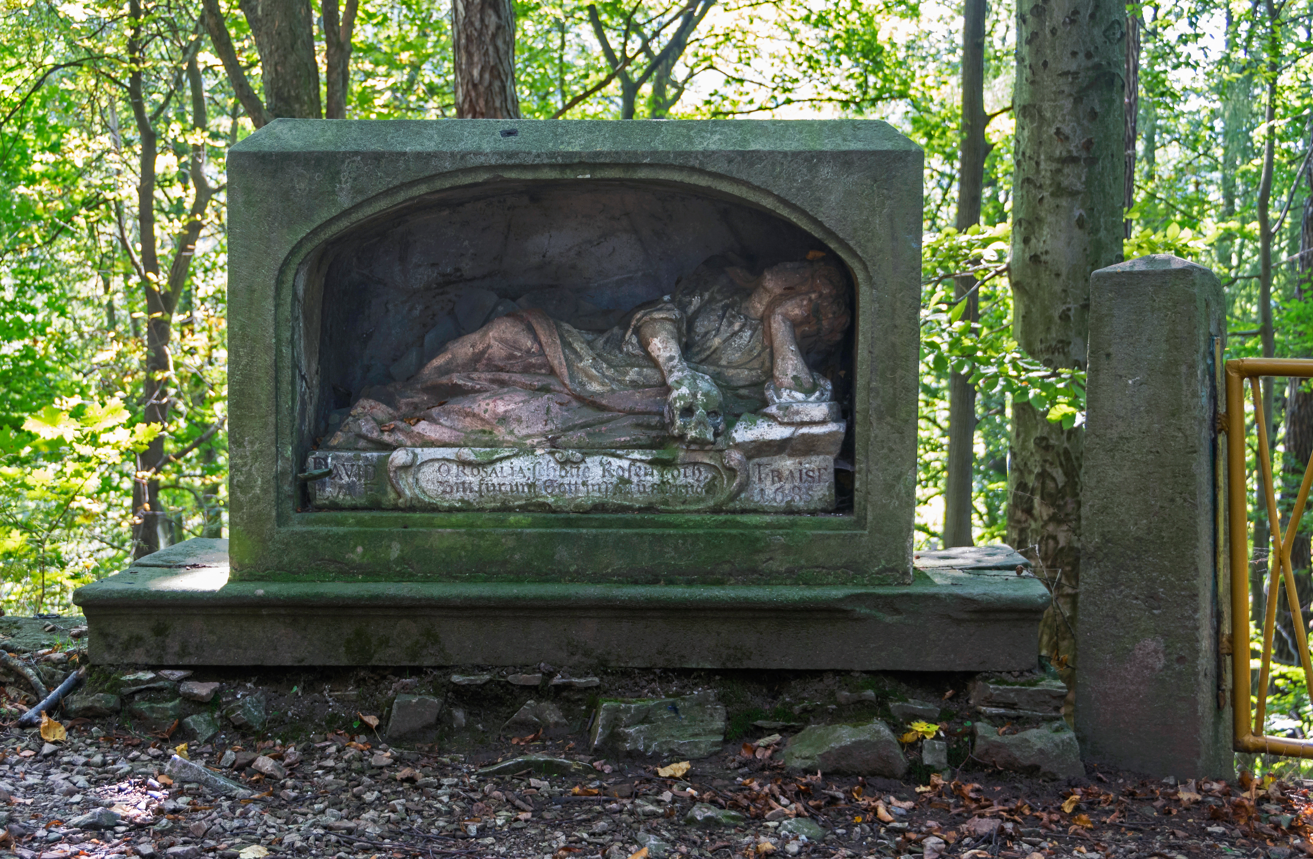 Chapel of the Holy Trinity in Duszniki-Zdrój, Rosalia Lebohne tombstone